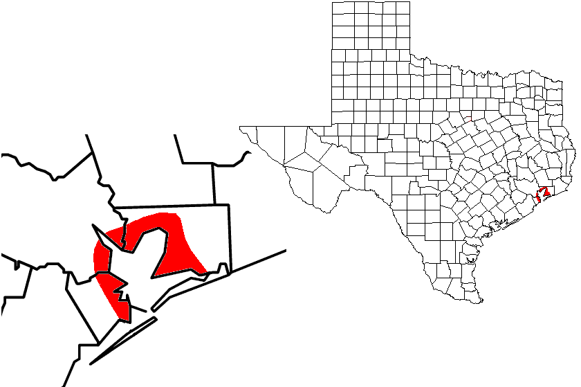 Author: Miguel R. Corazao